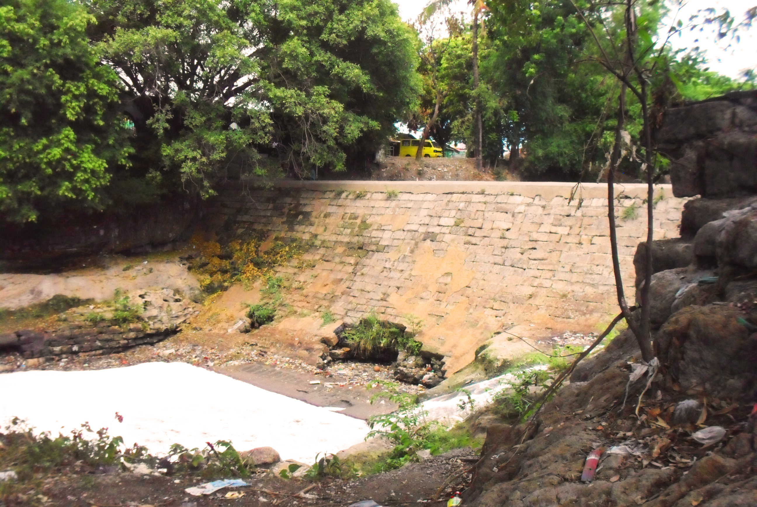 View from the West side of the Molino Dam, approaching Florlina Dela Cruz Street from Molino Road. It shows the layer-by-layer stacking of adobe stones with disintegrated plaster coatings